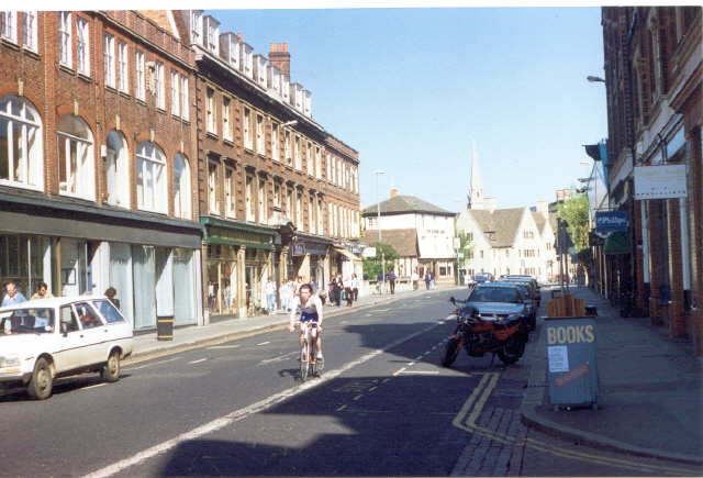 Oxford street scene. I find it hard to imagine that this is busy Oxford on a fine, mild Saturday afternoon in Spring - but it was.